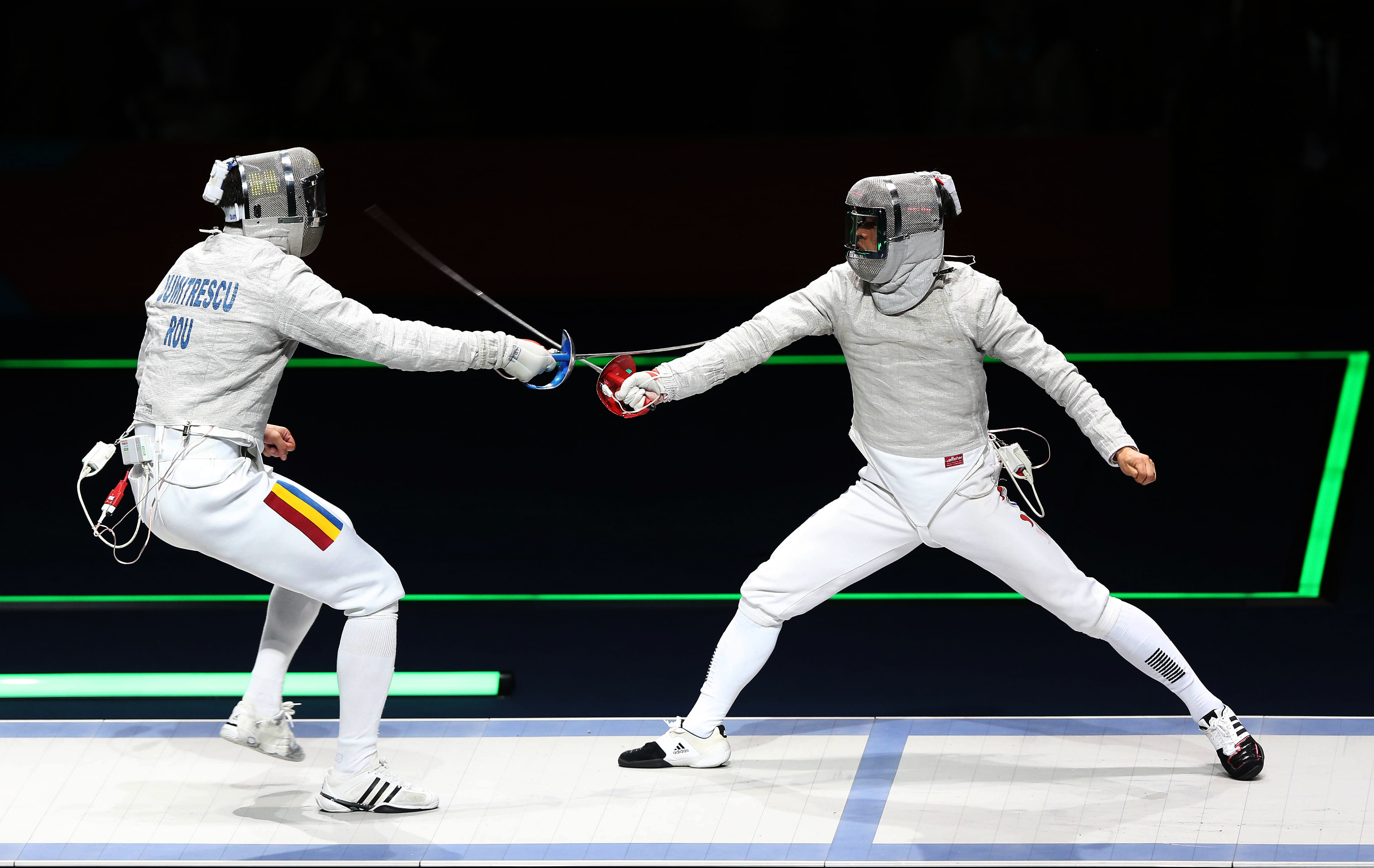 2012 London Olympic Games Korea won the gold medal men's team Saber fenching. Gu Bongil, Kim Junghwan, Won Woo-young and Oh Eunseok 2012. 08. 05. hoto by Korean Olympic Committee Ministry of Culture, Sports and Tourism Korean Culture and Information Service 2012 런던 올림픽 한국 남자 사브르 단체전 금메달 획득 구본길, 김정환, 원우영, 오은석 사진제공 - 대한체육회 문화체육관광부 해외문화홍보원